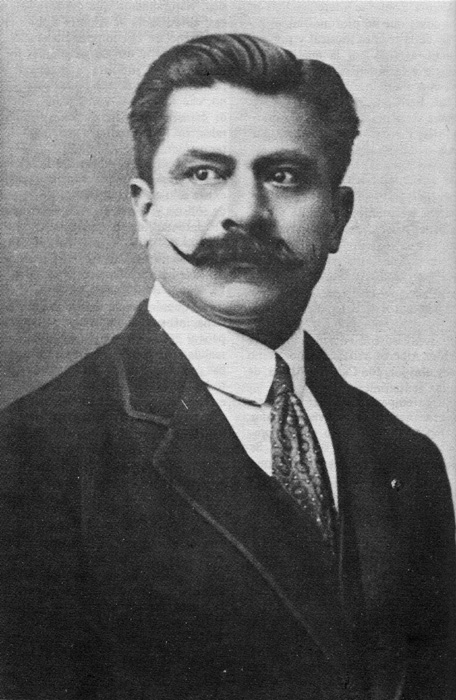 Peruvian composer and ethnomusicologist; best known for composing the song El Cóndor pasa.